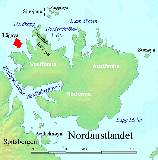 Lågøya in red